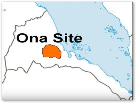 Earliest settlements around Asmara.